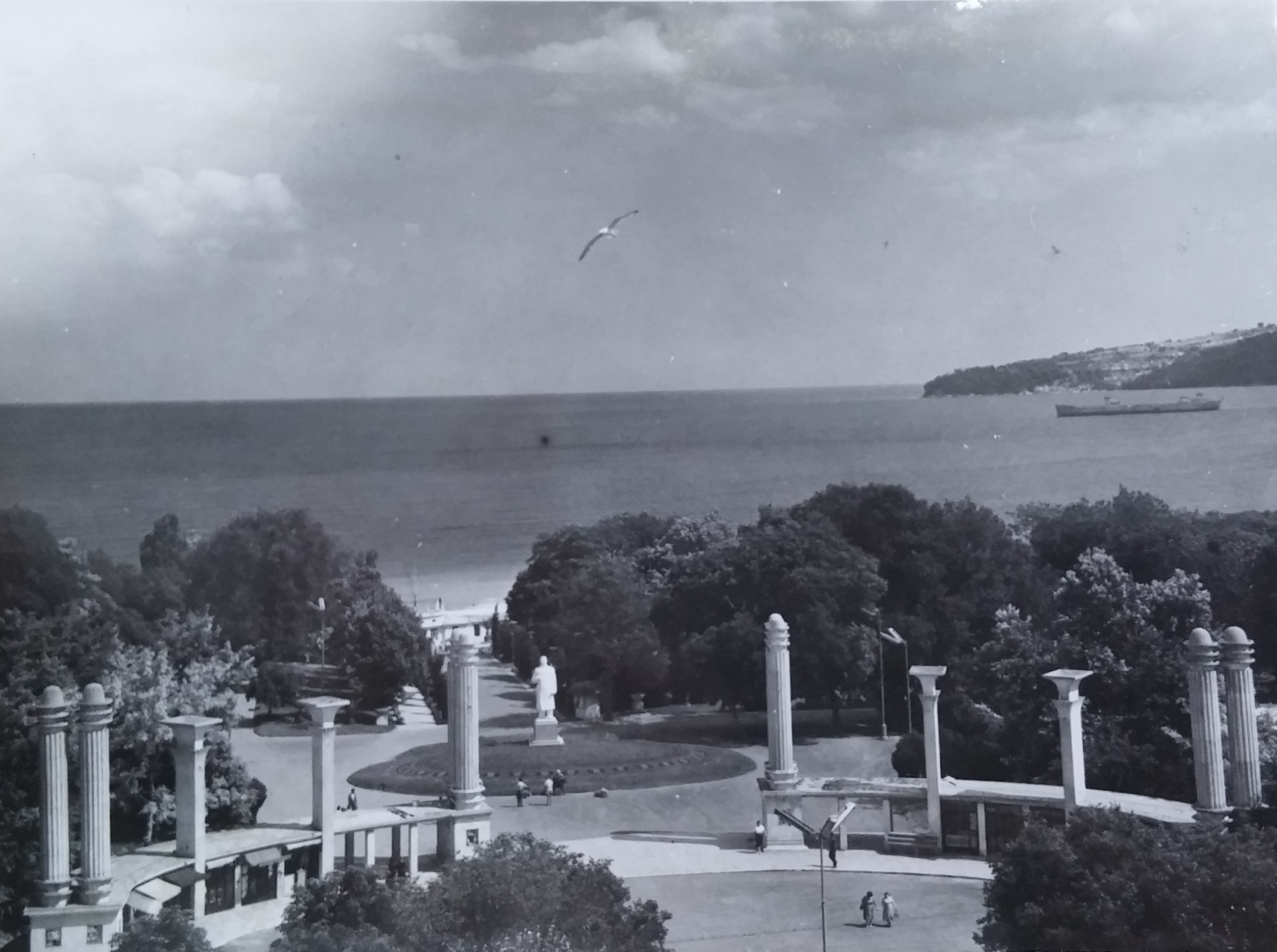 Varna. Photos of the Sea Garden.